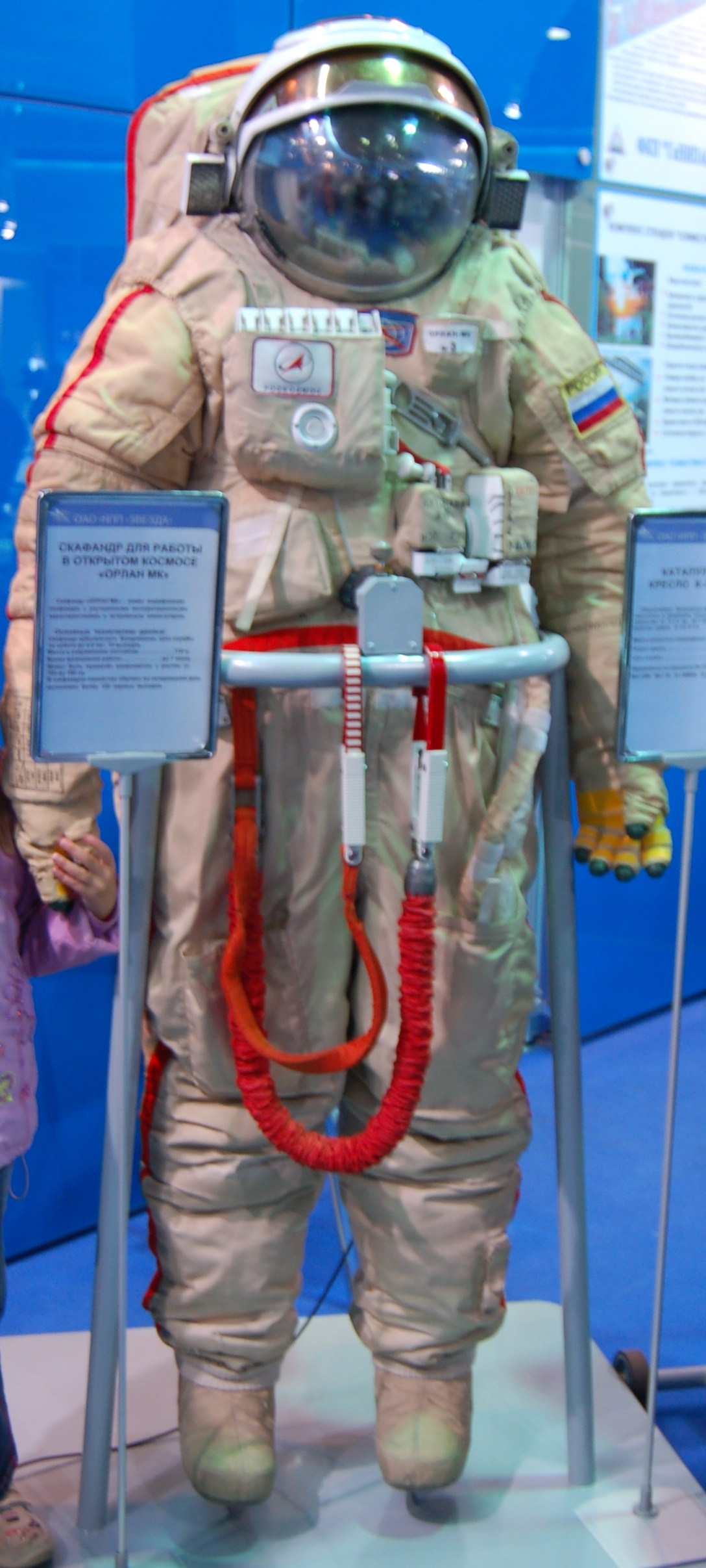 Spacesuit Orlan-MK at МАКС-2009